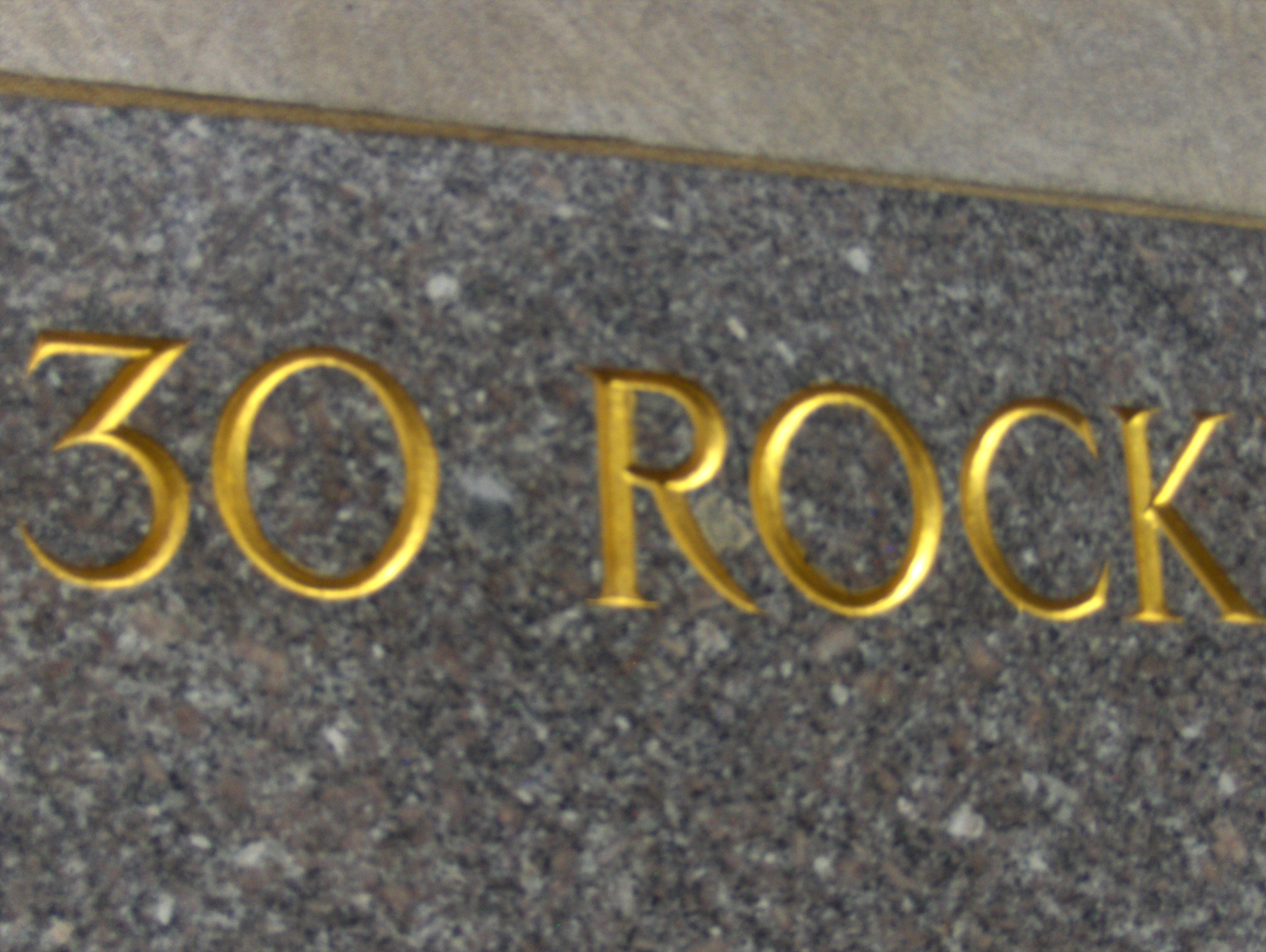 I had to snap this quickly because lots of people wanted to snap the same photo. Sue works seven blocks away, but we pretended we were tourists anyway. And it's an excellent show.